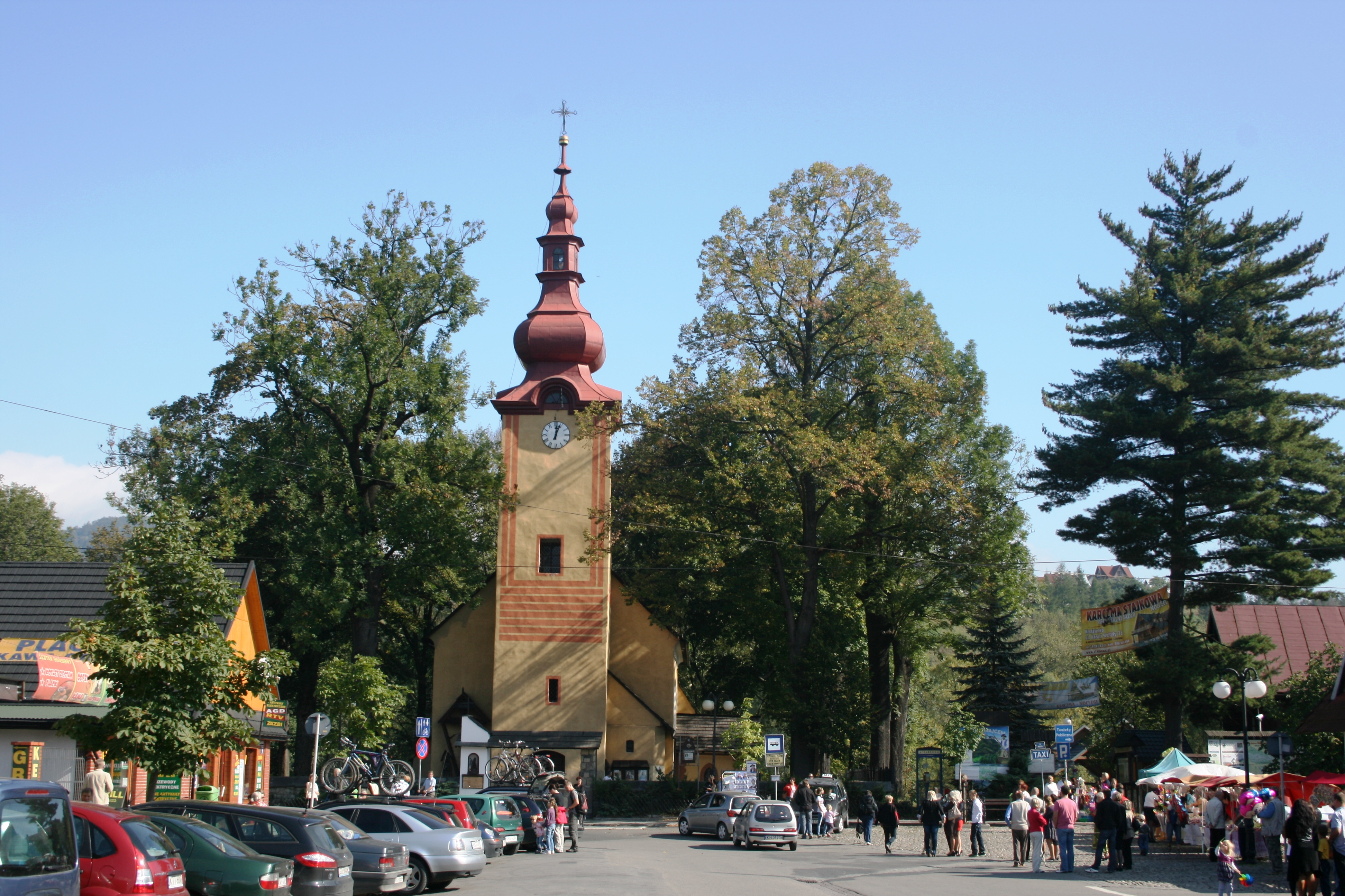 All Saints Church in Krościenko nad Dunajcem (Poland) – general view from the market square